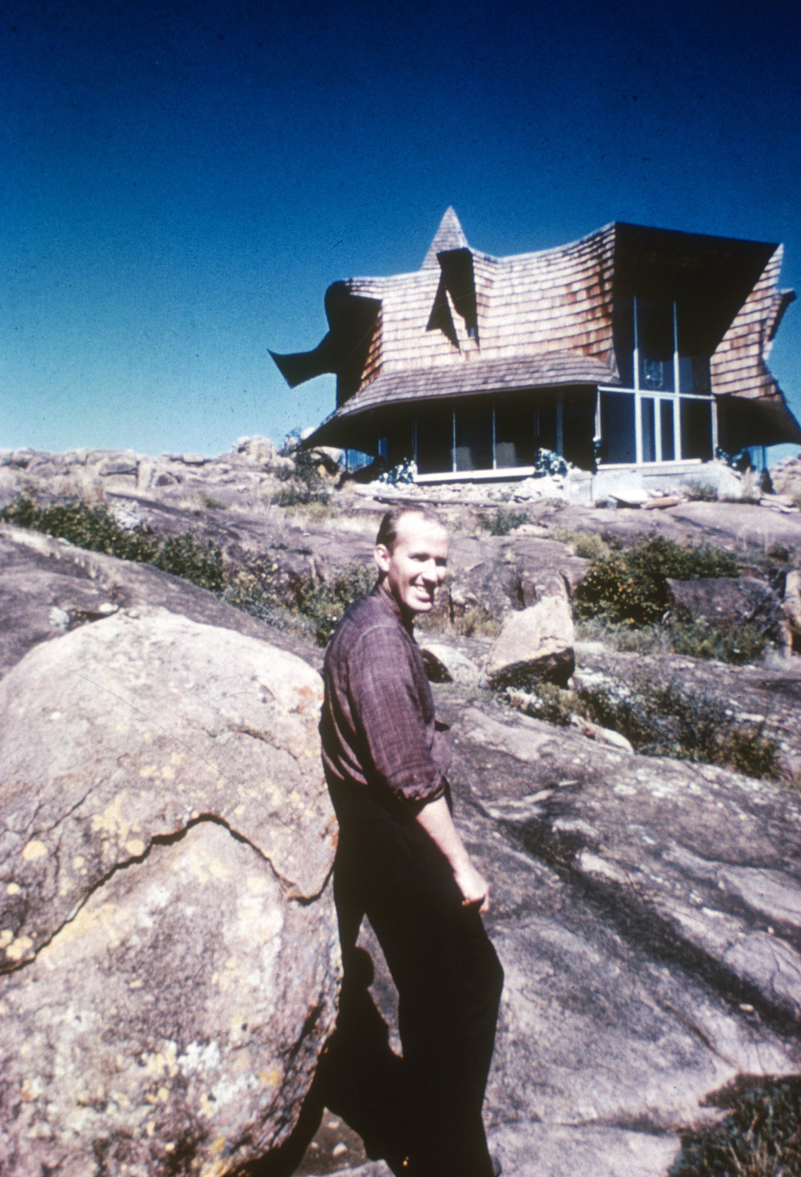 Herb Greene visiting the Joyce House property in Snyder, Oklahoma.